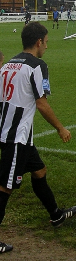 Marc Canham, footballer playing for Bath City F.C. (photo taken after the match Bath City F.C. vs. Darlington F.C., which was held on 8 October 2011)